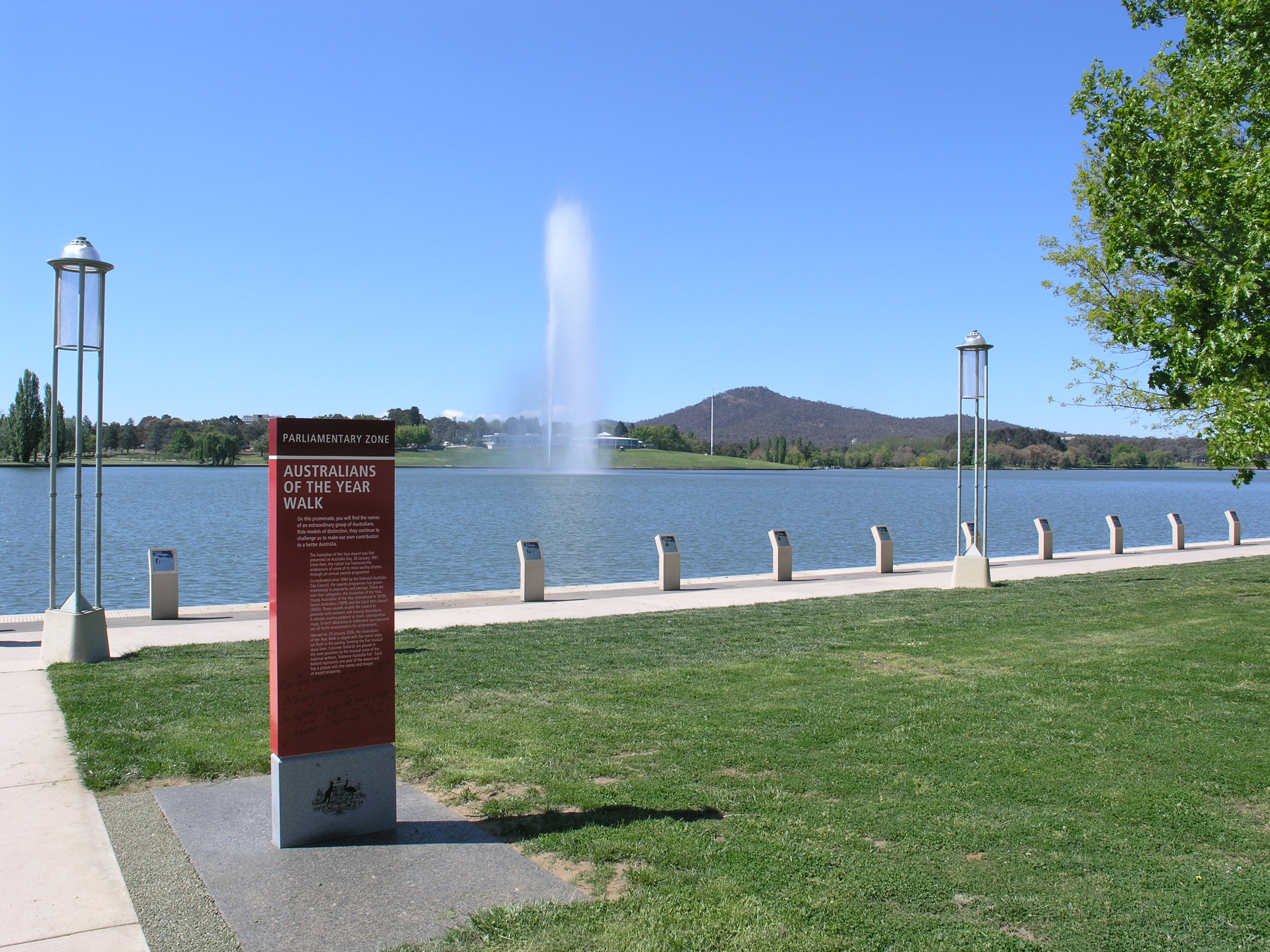 "Australians of the Year Walk" at Lake Burley Griffin, Canberra. With Captain Cook Memorial Jet.